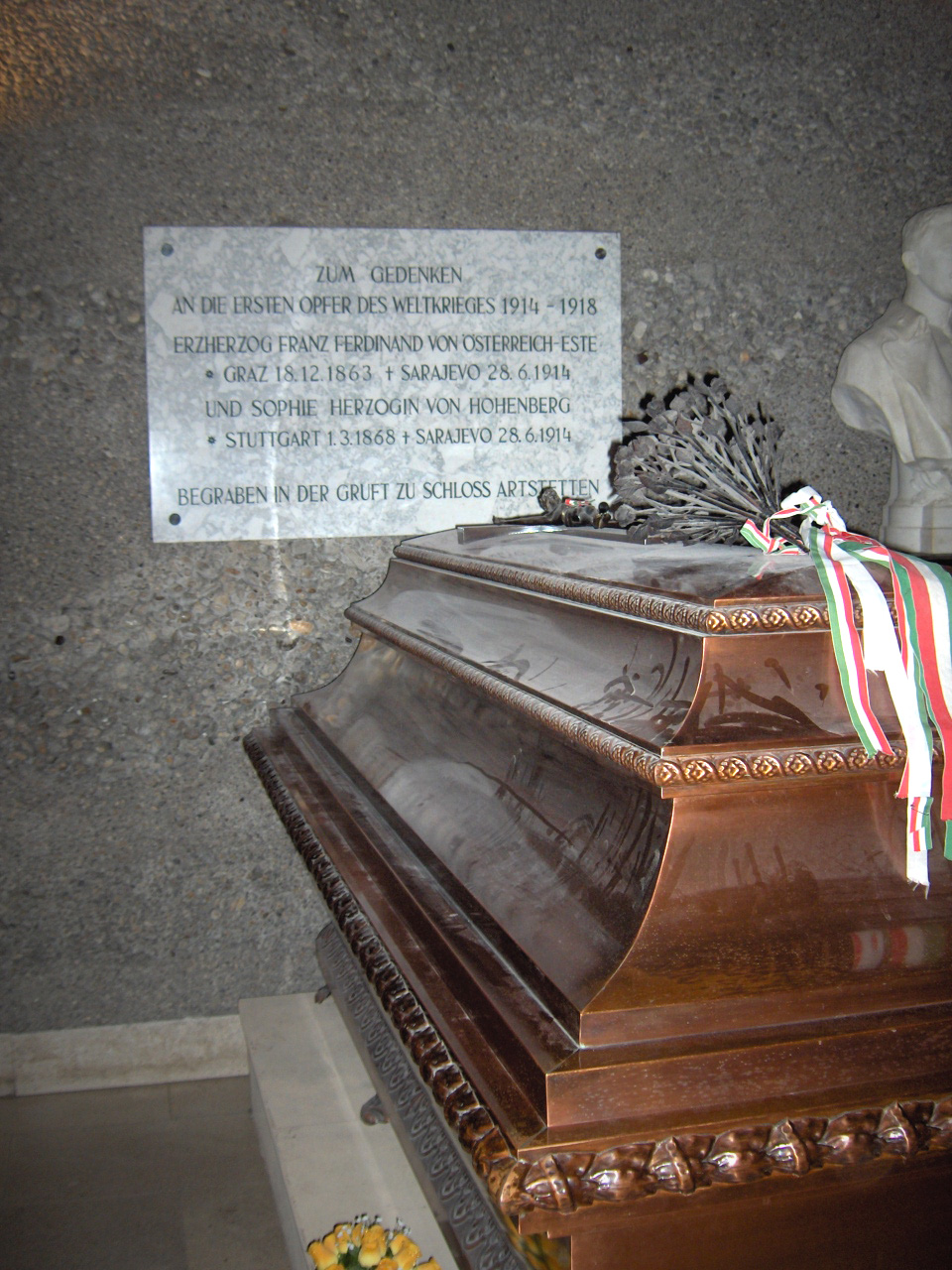 Tomb of Empress Zita (1892-1989) in front of memorial plaque to Archduke Franz Ferdinand of Austria-Este (1863 - 1914); Kaisergruft, Vienna. He is buried in the castle of Artstetten, Austria.